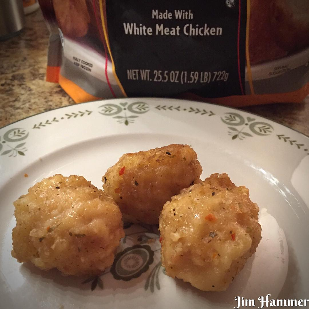 Tyson Any'tizers Boneless Chicken Wyngz (Zesty Garlic Parmesan) = Very Tasty!